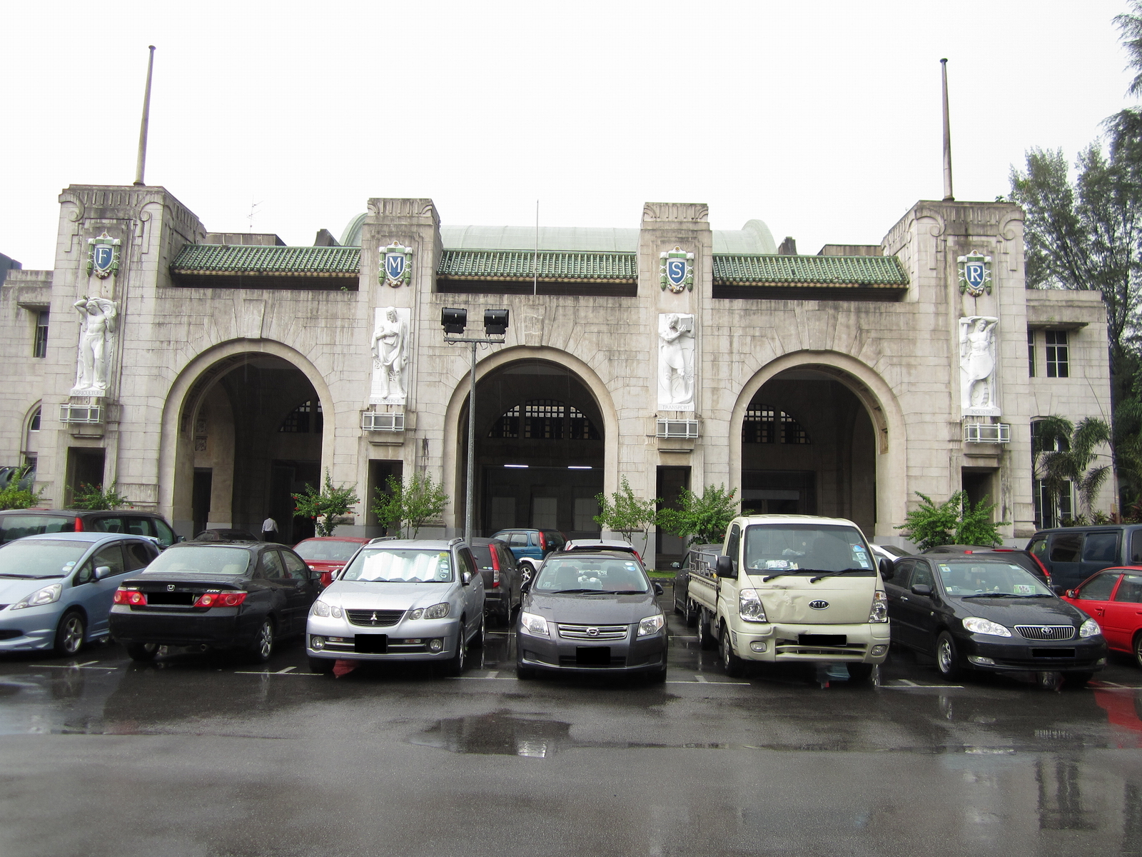 The Tanjong Pagar Railway Station in Singapore, exterior view.